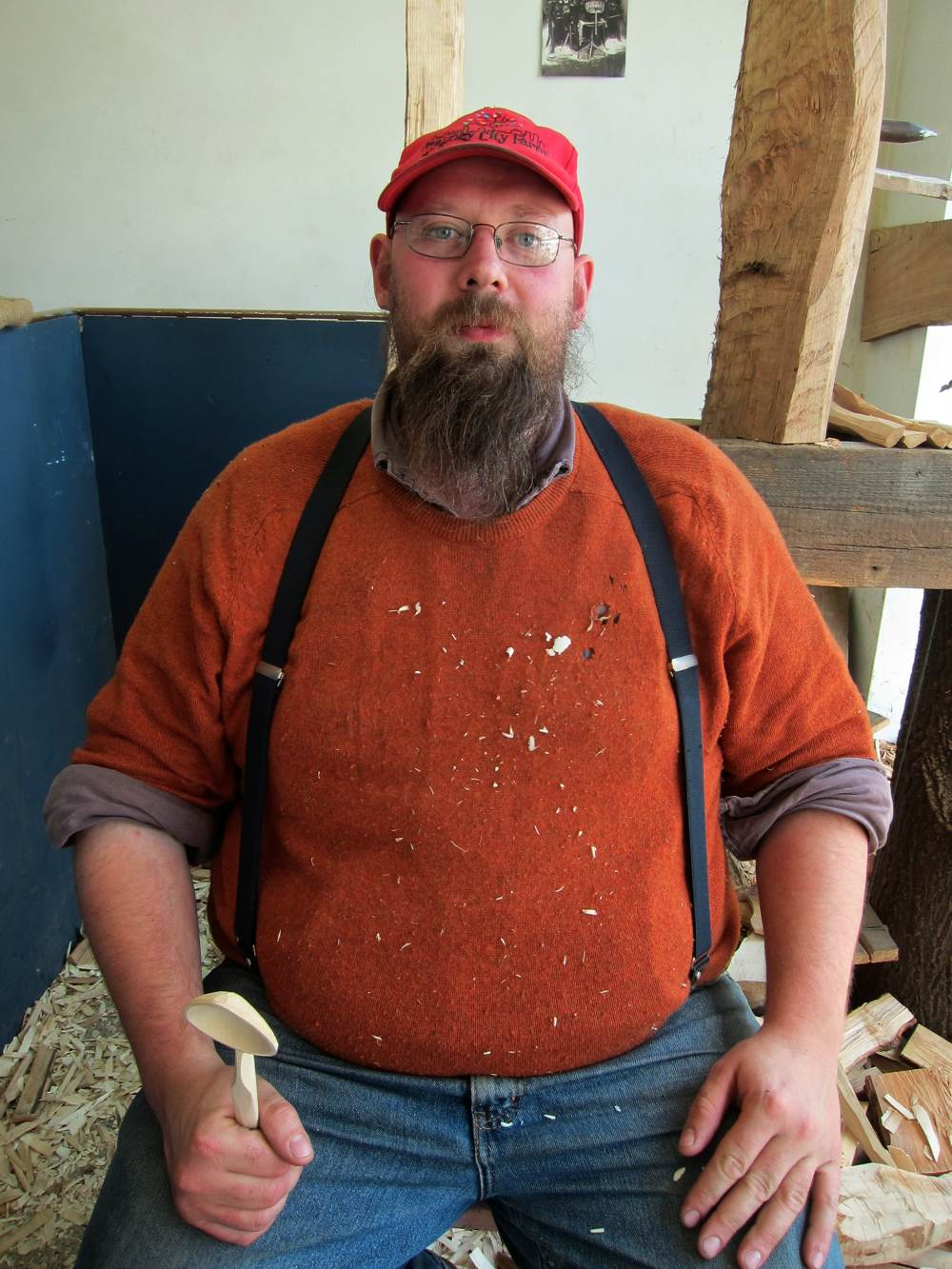 Barn the Spoon, (Barnarby Carder) in his Hackney Road shop, taken by The Gentle Author